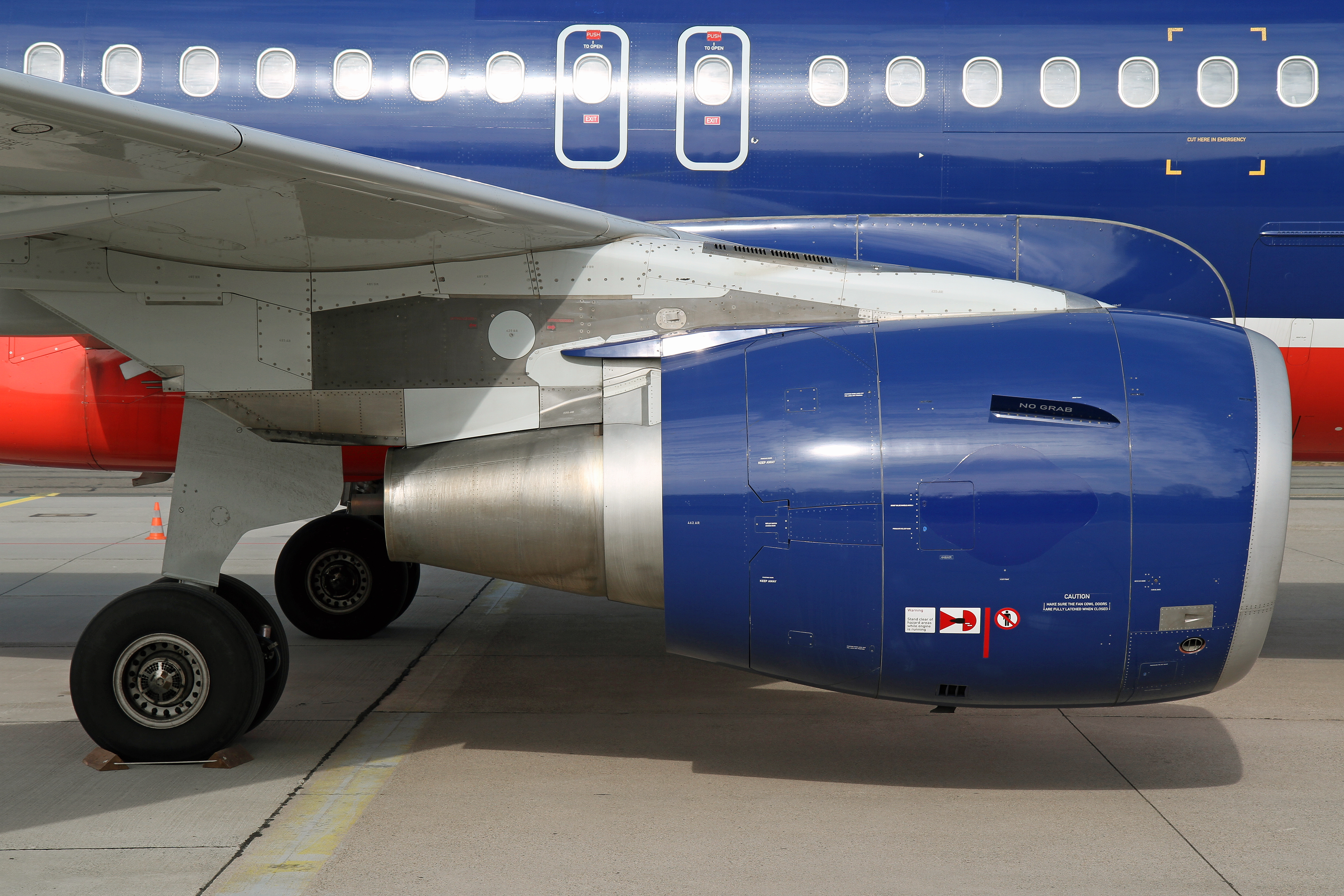 CFM56 engine of a Hamburg Airways Airbus A319